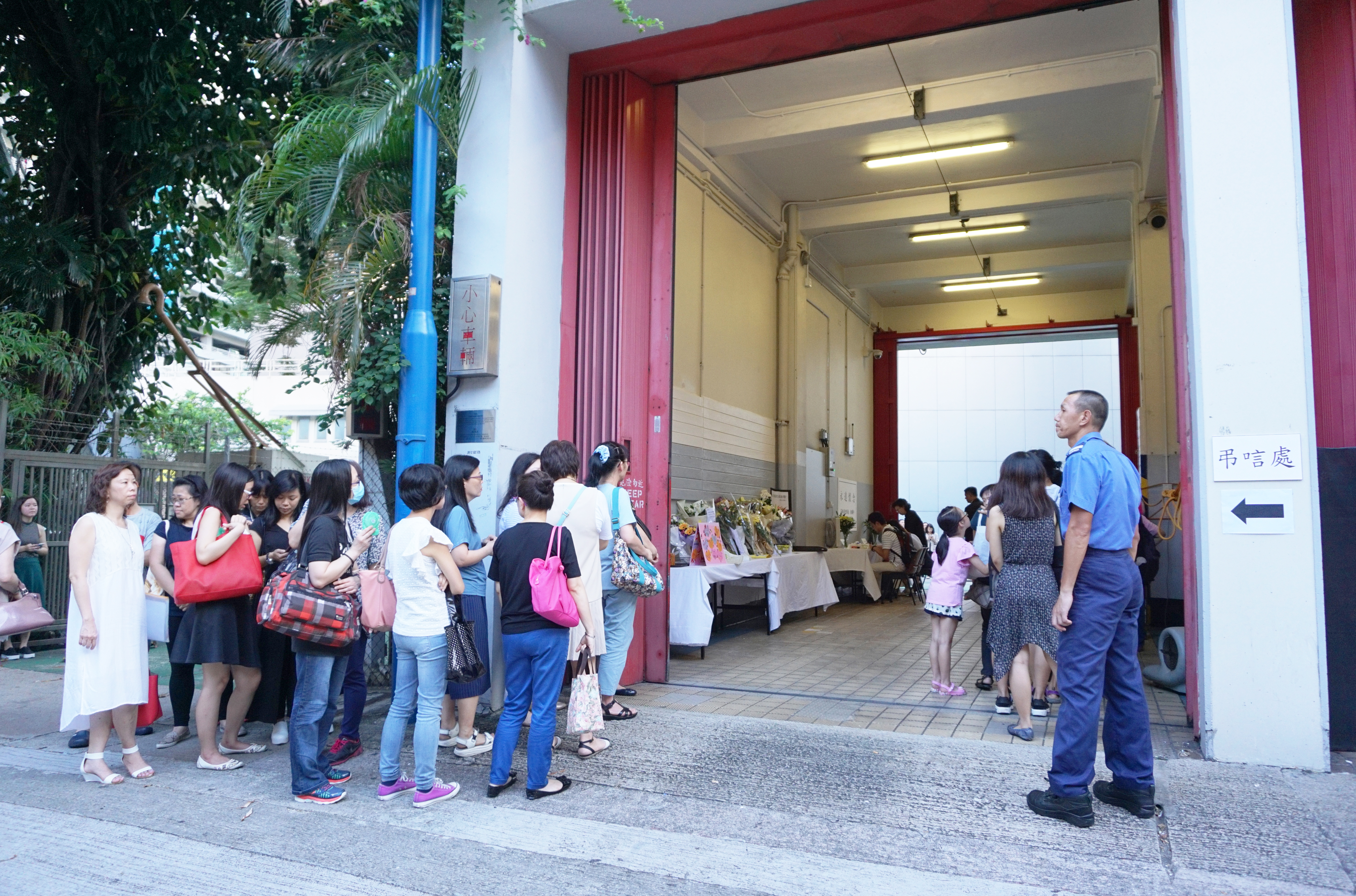 People paying respect to the deceased fireman in Kwun Tong Fire Station, Hong Kong.